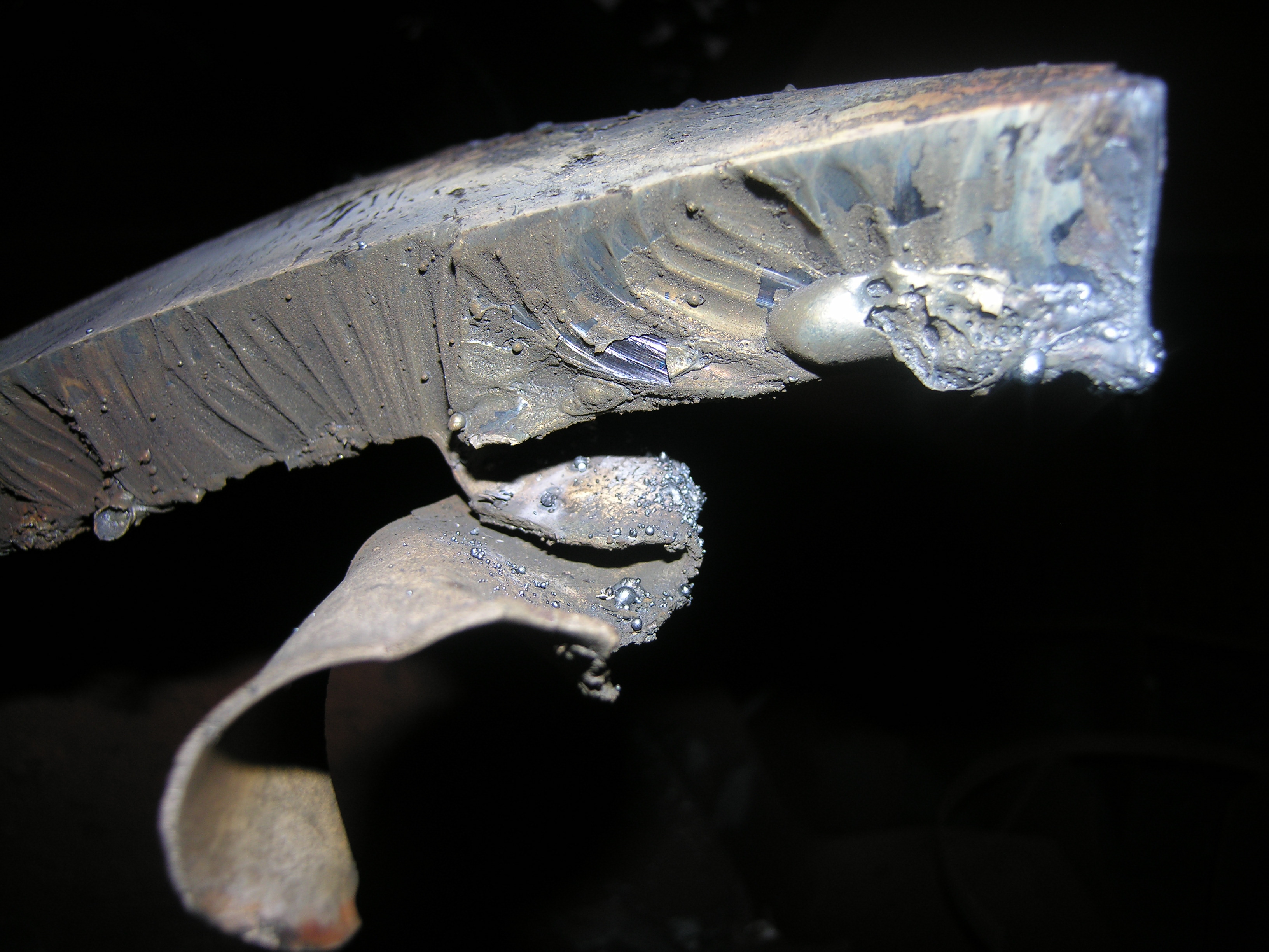 A view to the side of metal that has been cut with the cutting torch